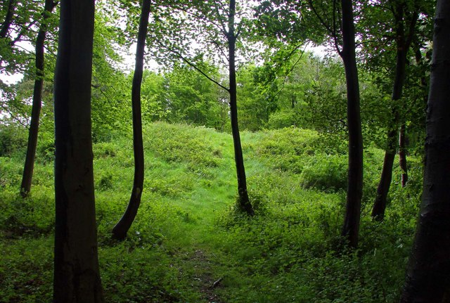 Scutchamer Knob through the trees